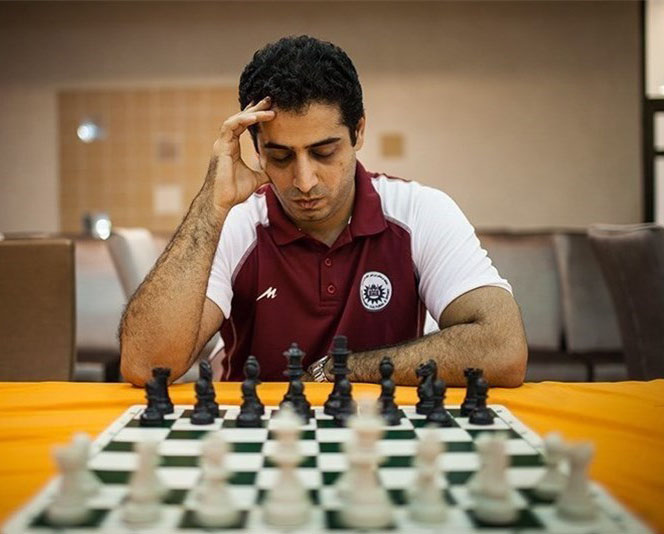 Ehsan Ghaem-Maghami, Iranian chess player.